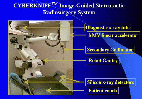 This file was created from a PDF talk given to me by one of the Stanford Neurosurgeons. The image is an old model Fanuc Robot with the original style of linac acclelerator cover. Note the CyberKnife system using the Kuka robot has a moulding with black and white regions